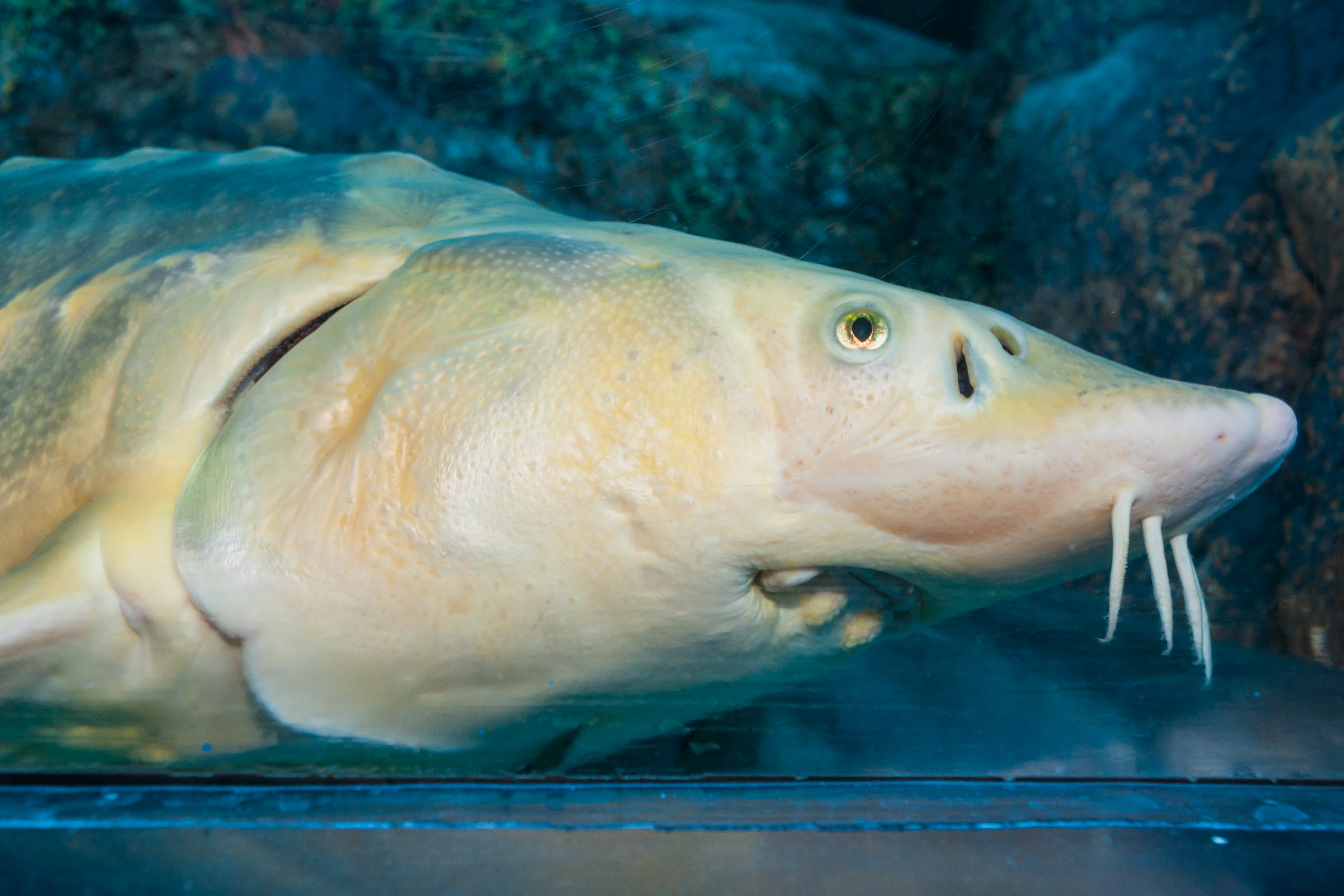 Dalian, Liaoning, China: Chinese sturgeons at Dalian Laohutan Ocean Park